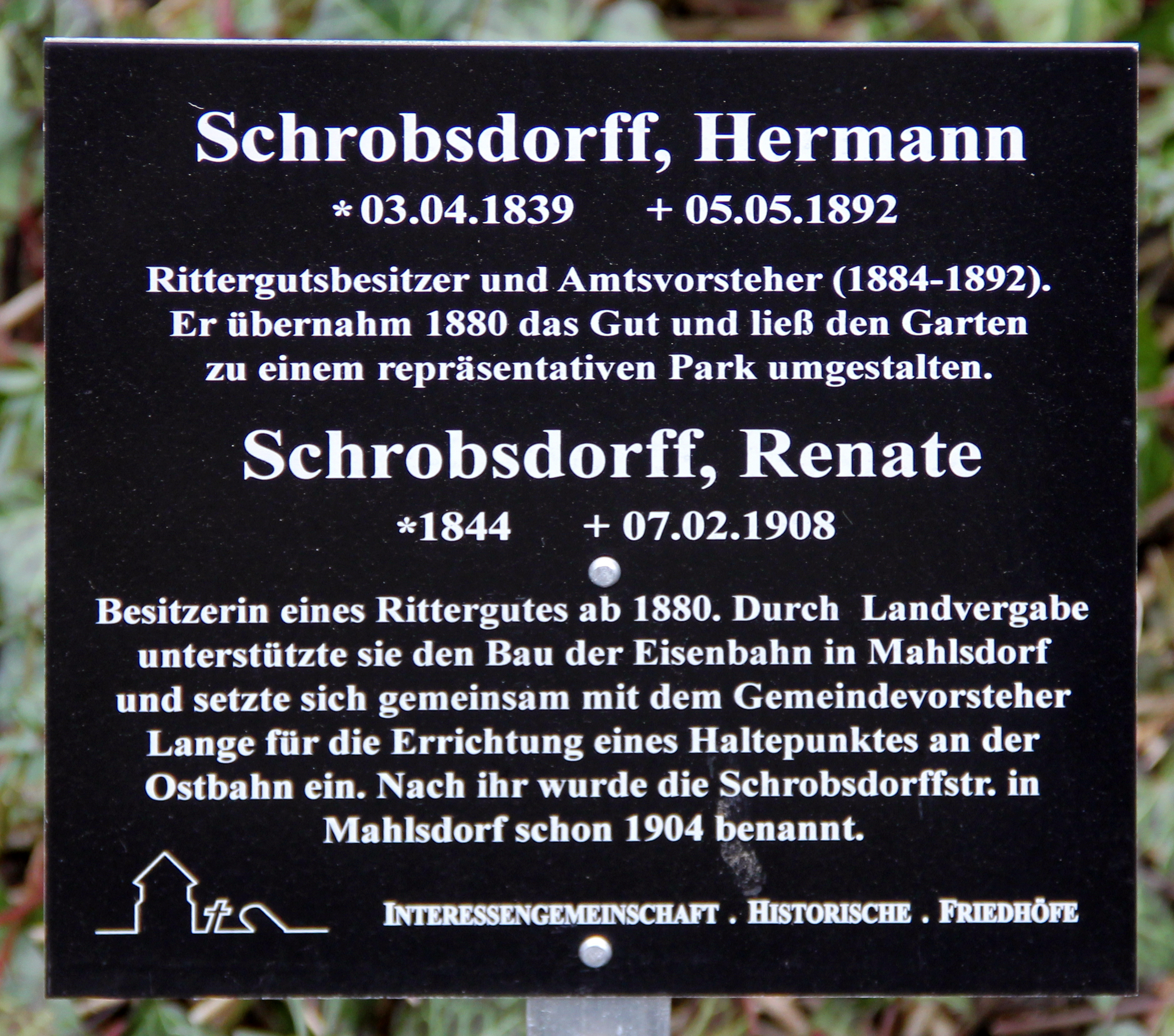 Memorial plaque, Hermann Schrobsdorff and Renate Schrobsdorff, Hönower Straße 13, Berlin-Mahlsdorf, Germany